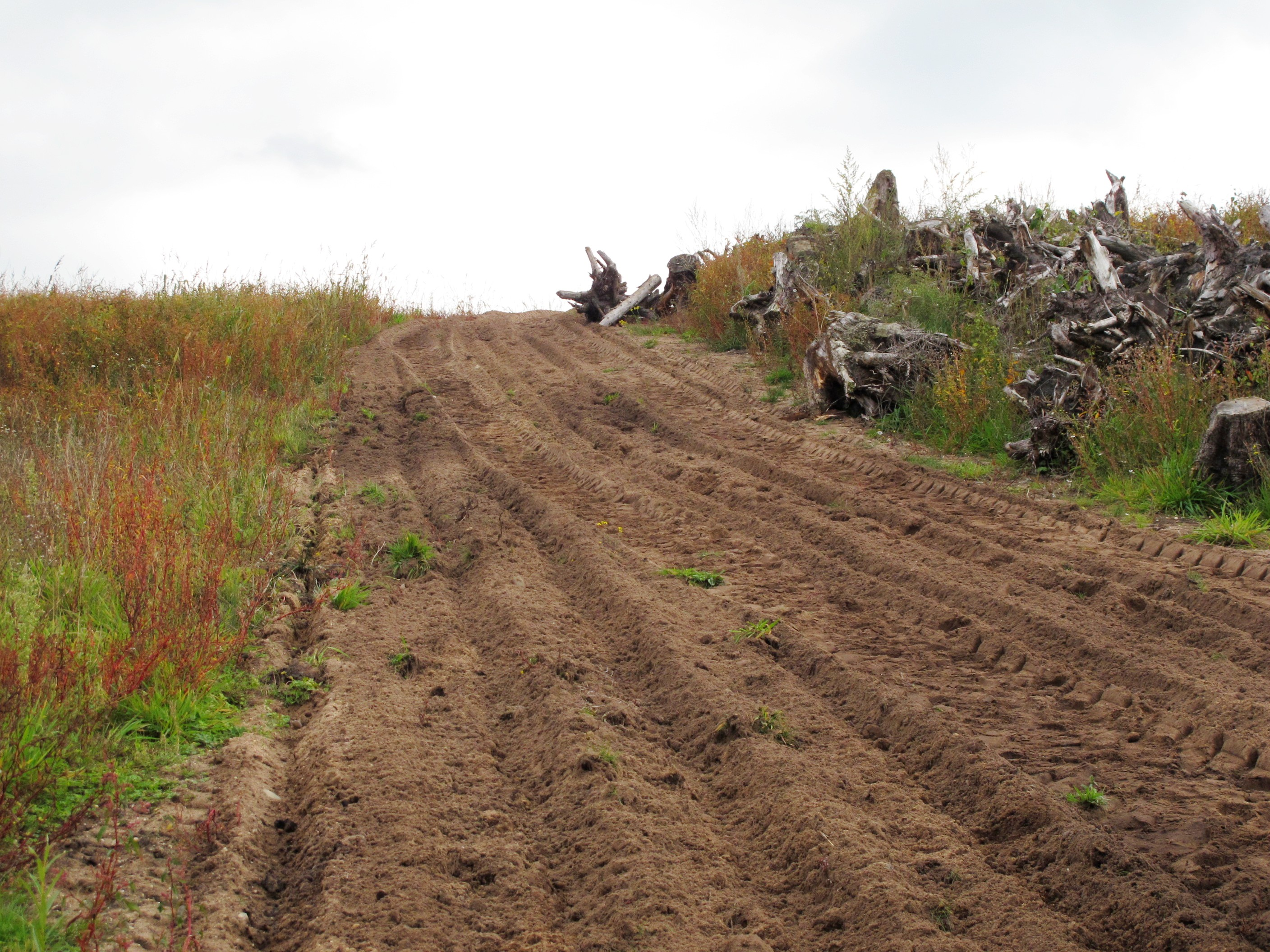 Ecoduct Mollebos, with in the middle een track for maintenance